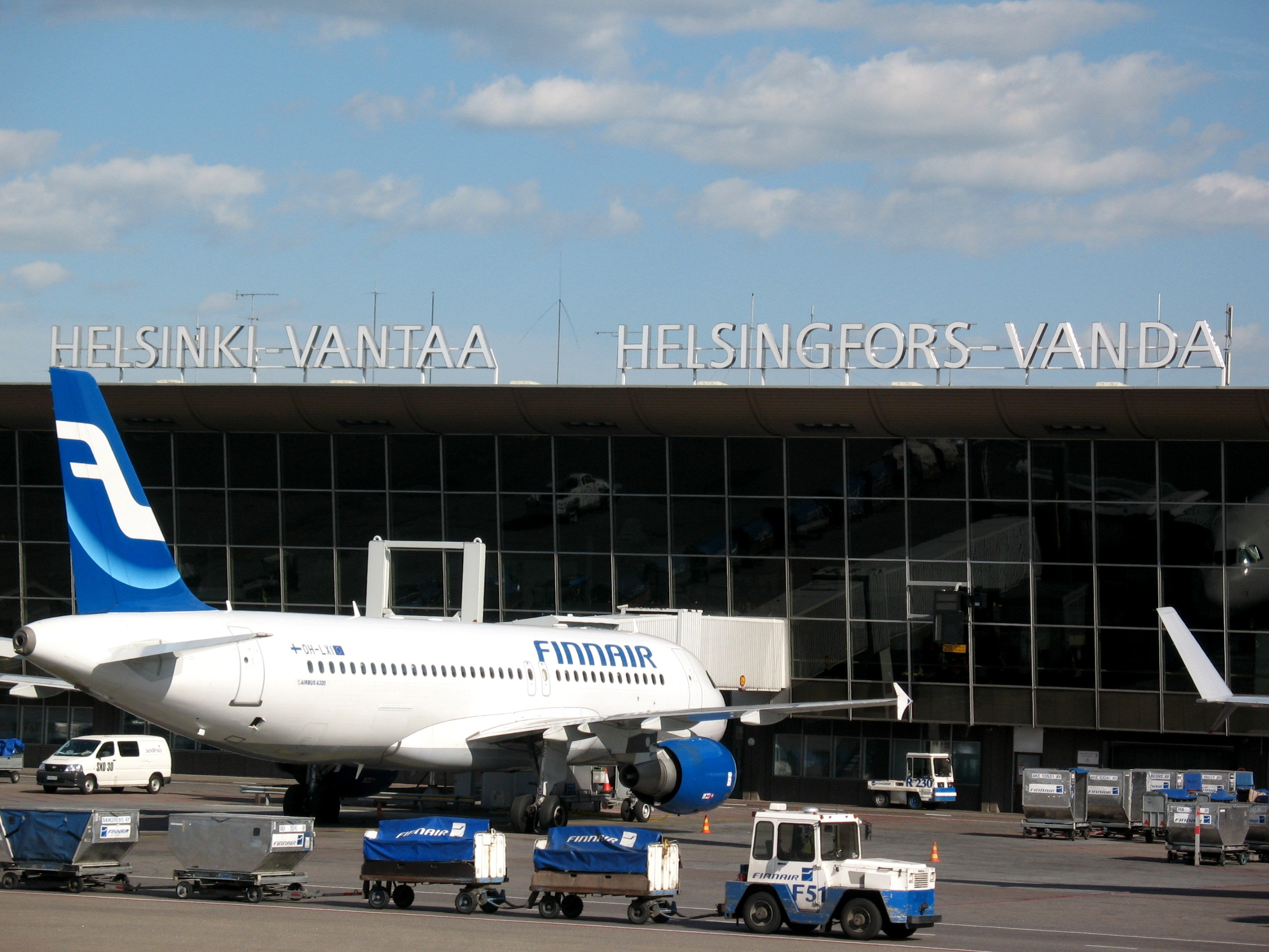 Finnair Airbus A320 at Helsinki-Vantaa airport